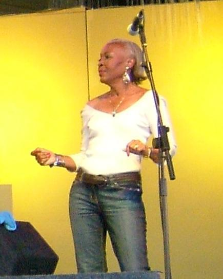 Myrna Hague performing with Jazz Jamaica at the Summer Sundae festival, Leicester, August 2007